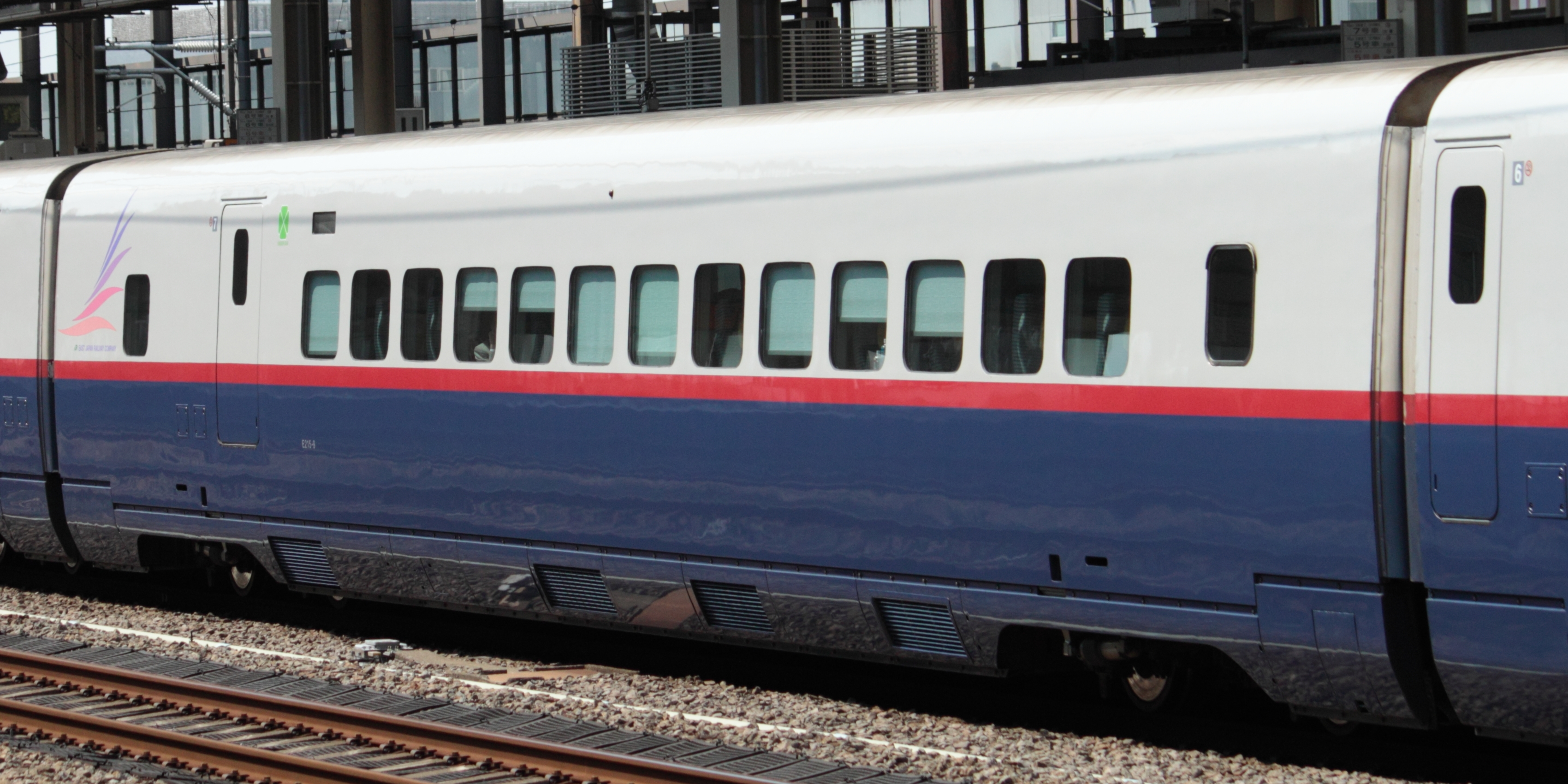 JR East E2-0 series shinkansen car E215-9 (car 7 of set N3) at Kumagaya Station